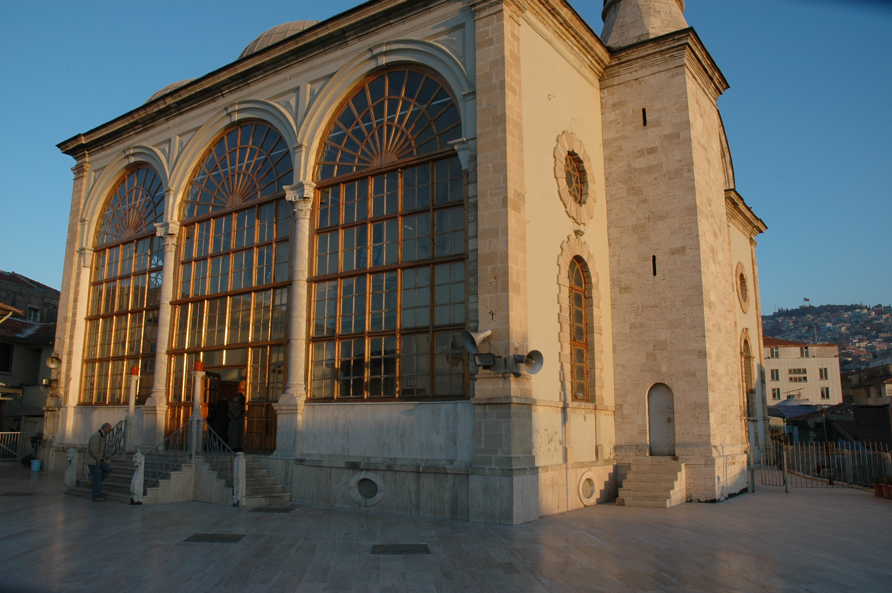 Exterior of this mosque